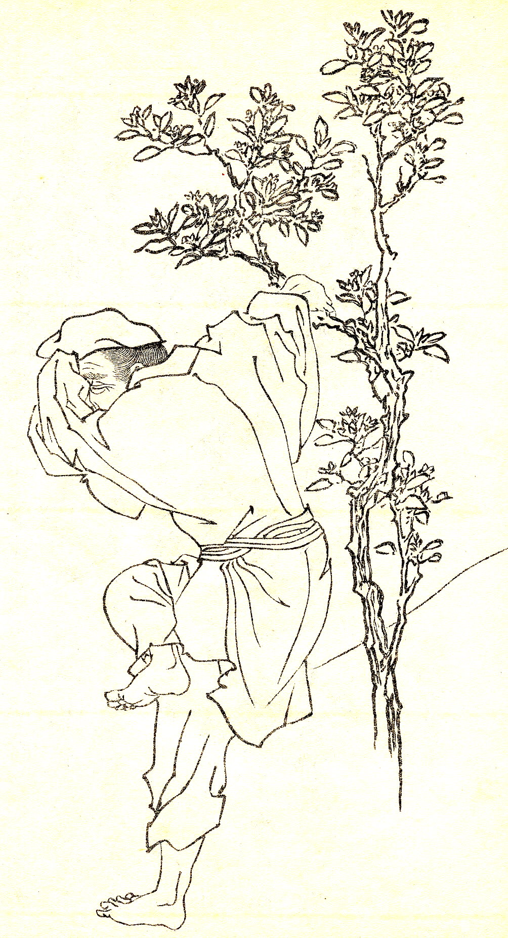 Tajimamori(田道間守) was a legendary japanese who was known as God of sweets artisan.